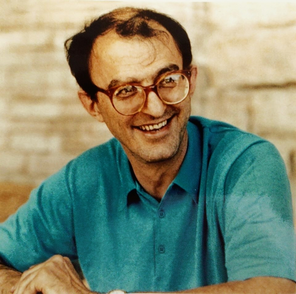 Umberto Ginocchietti Made in Italy